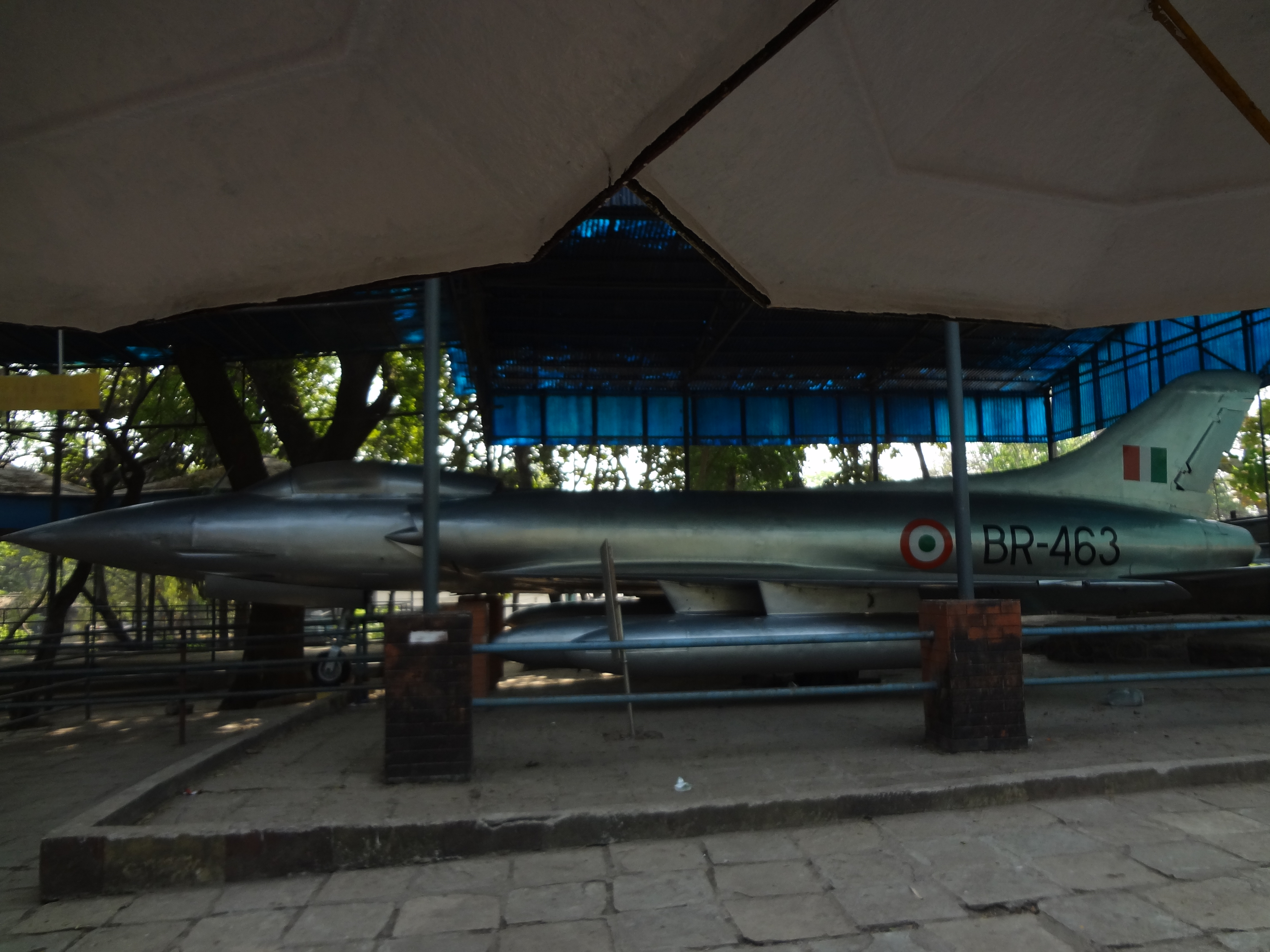 Mumbai Photowalk II